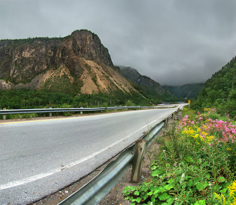 Corner Brook, Western Newfoundland, Canada. Along the Trans-Canada Highway, eastward to Deer Lake.